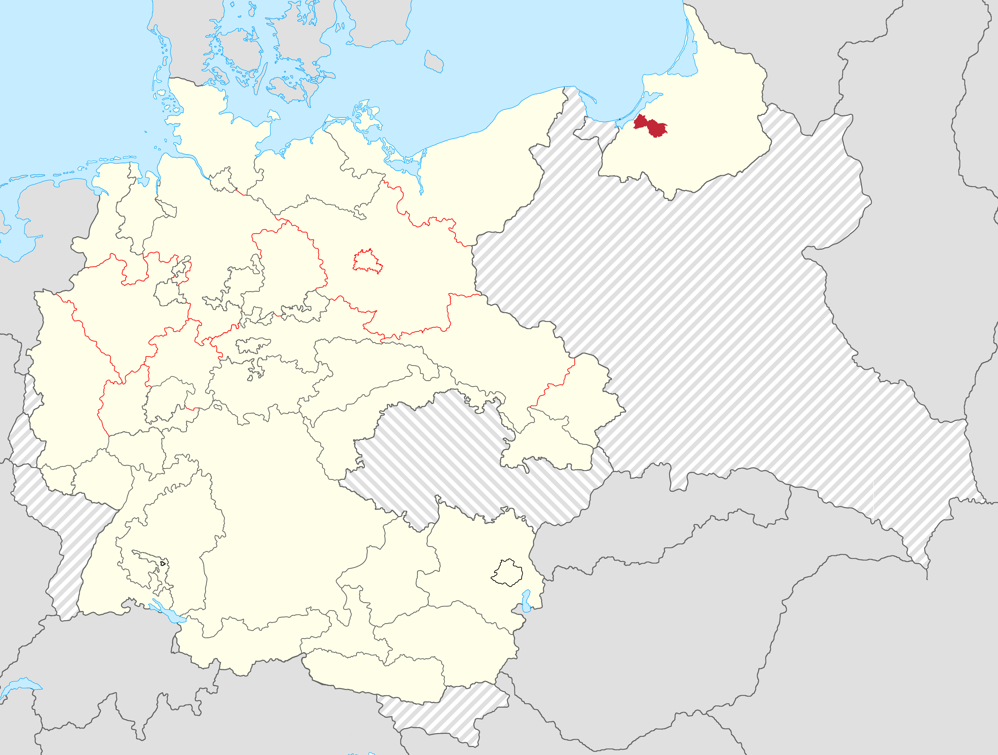 Locator map of Landkreis Braunsberg (Ostpr.) in Germany 1945